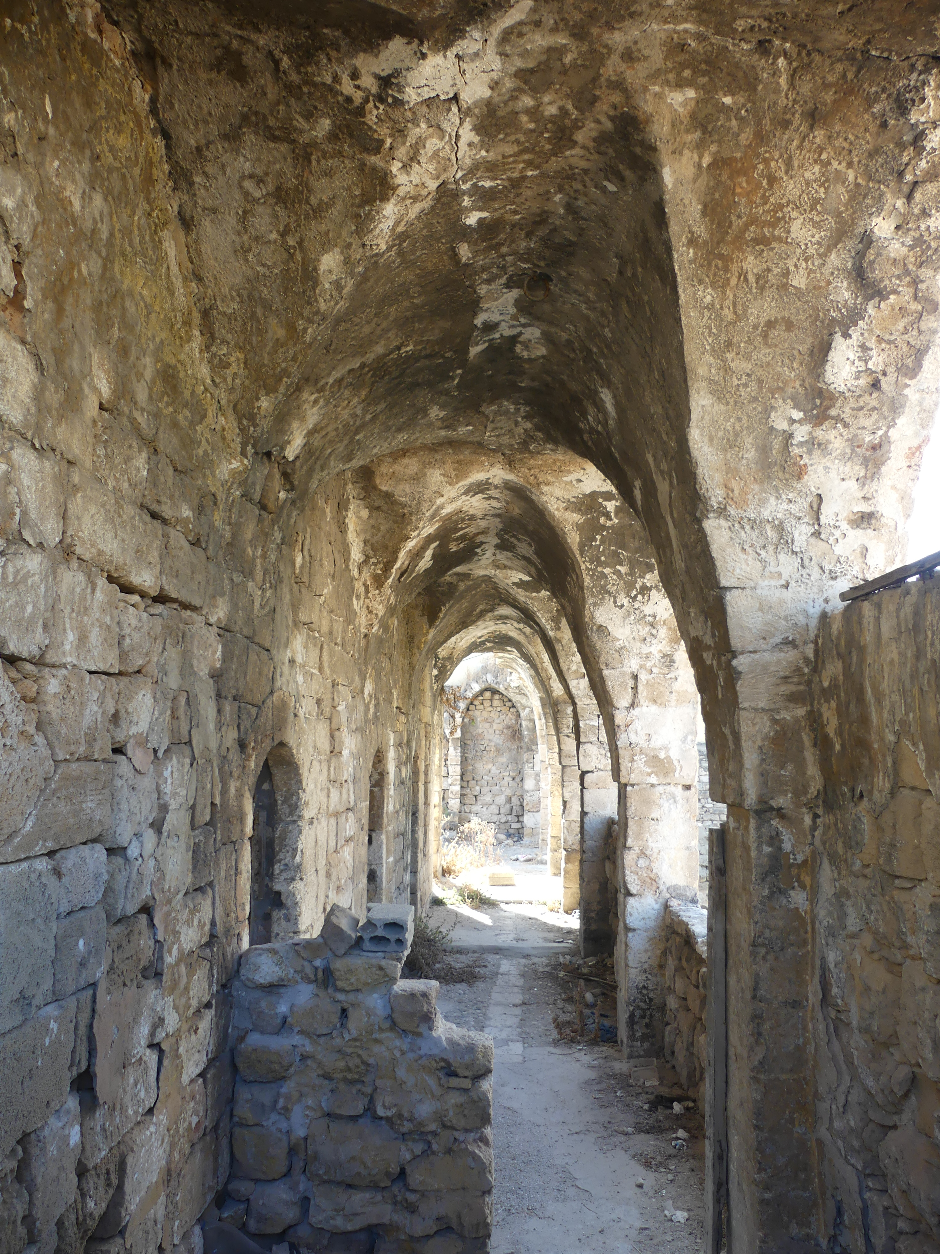 The upper gallery of the 16th century building Khan Sour in Tyre/Sour, Southern Lebanon. It was constructed as the residence Ottoman Emir Younes Al-Maani and "subsequently became the property of the Franciscan fathers." The building was later used as a garrison and transformed into a Khan, "traditionally a large rectangular courtyard with a central fountain, surrounded by covered galleries". French troops used the building during both World Wars as a base. In 1982, its second storey - seen here - was heavily damaged by Israeli bombardment. The ruins are still standing though in the centre of today's Souk marketplace area and are also known as Khan Al-Ashkar.